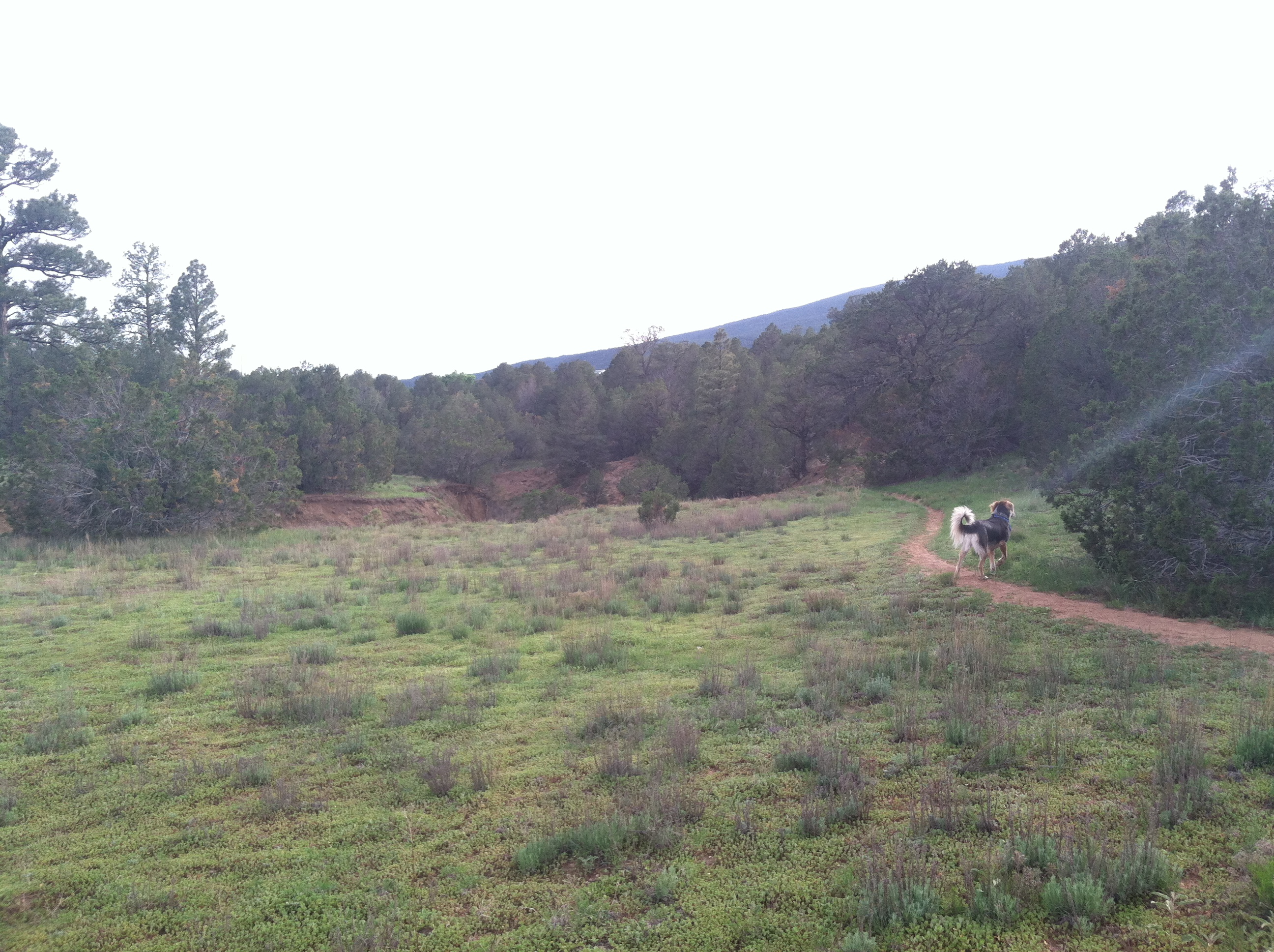 Hiking trail in Cedar Crest, NM